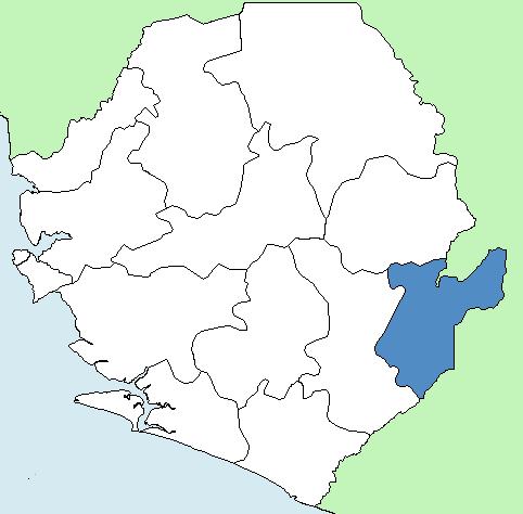 Map showing location of Kailahun District in Sierra Leone